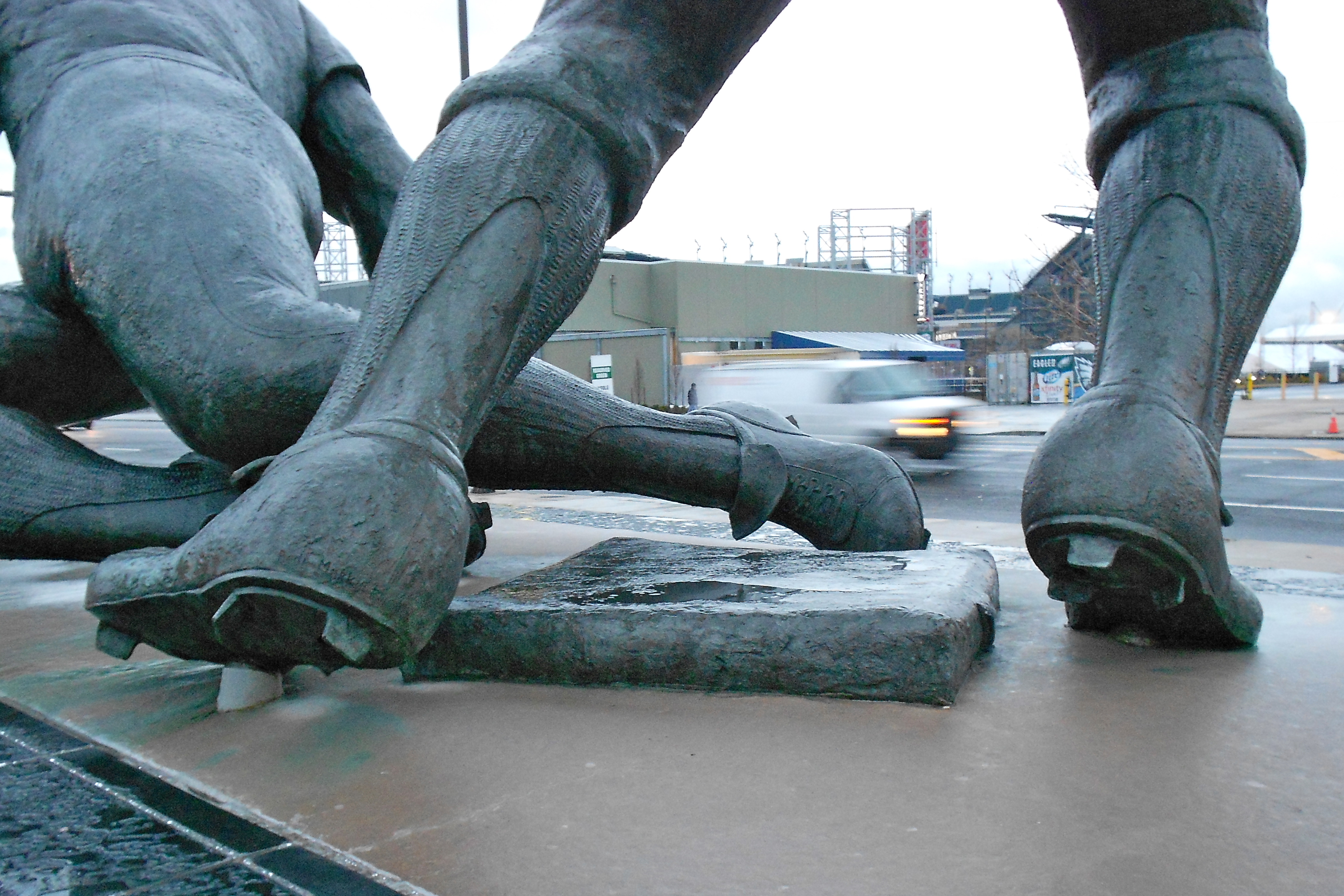 Play at Second Base by Joe Brown installed in 1976 in Veterans Stadium, "moved" to Citizens Bank Park. Bronze sculpture; concrete base. SIRIS reference IAS PA000185. The players footwork is important for this work, leaving the outcome of the play indeterminate. The defensive player holds the ball firmly, but is not touching 2nd base (by an inch or two with either foot). The sliding player's foot is also about 2 inches away. No visible copyright notice, so the work is out of copyright.